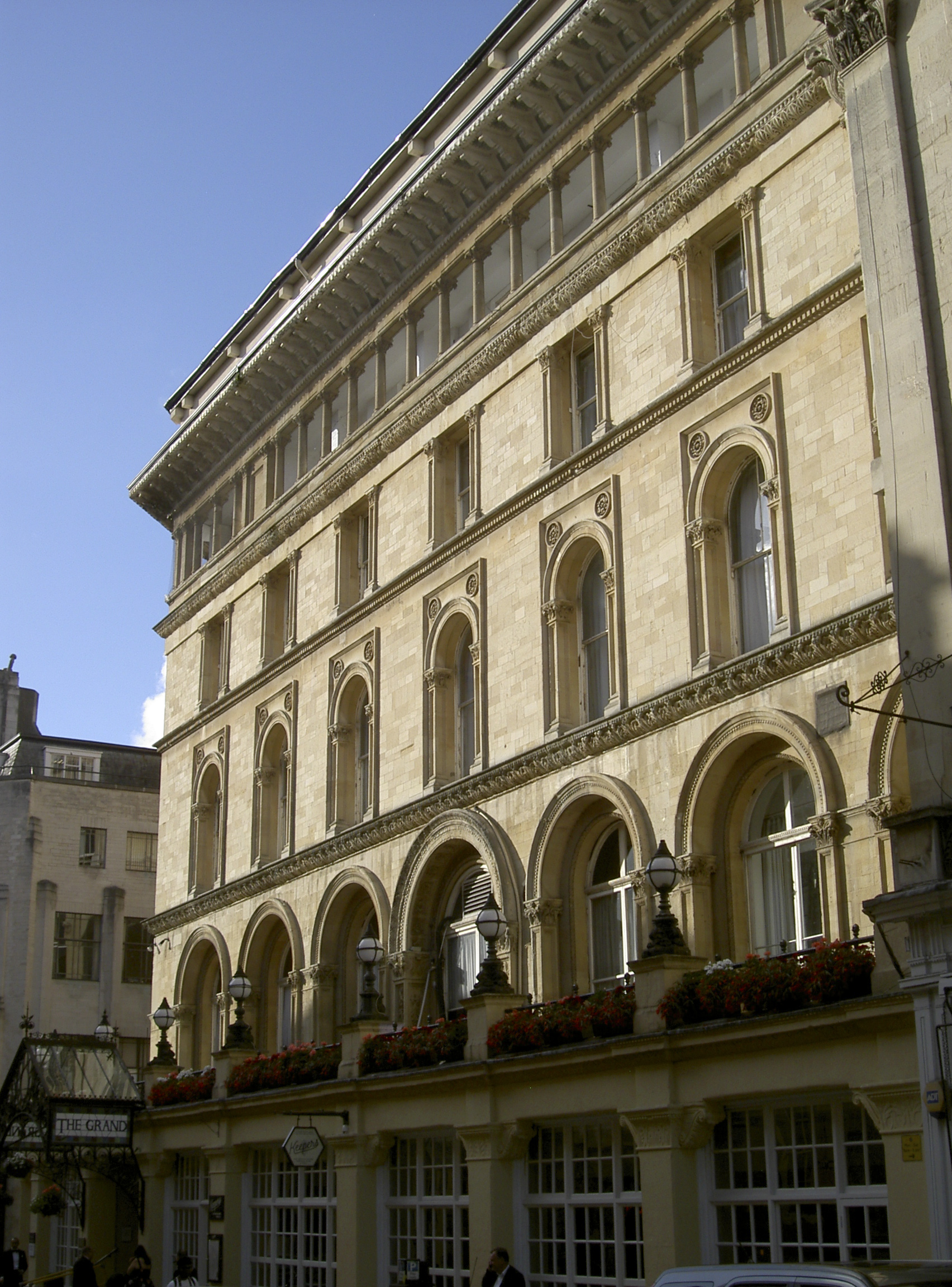 The Grand in Broad Street